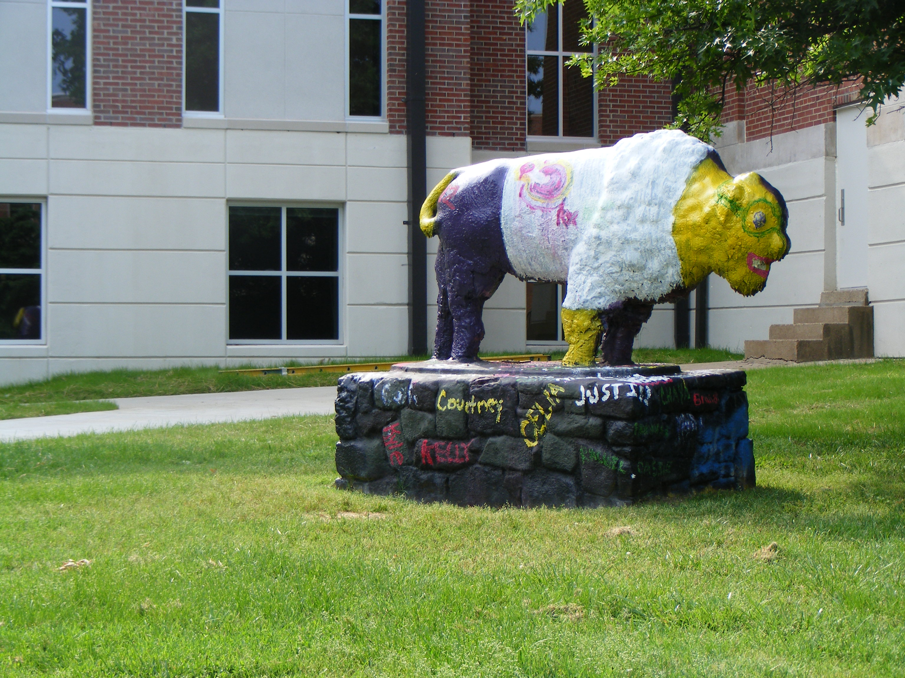 Lipscomb University in Nashville, Tennessee.